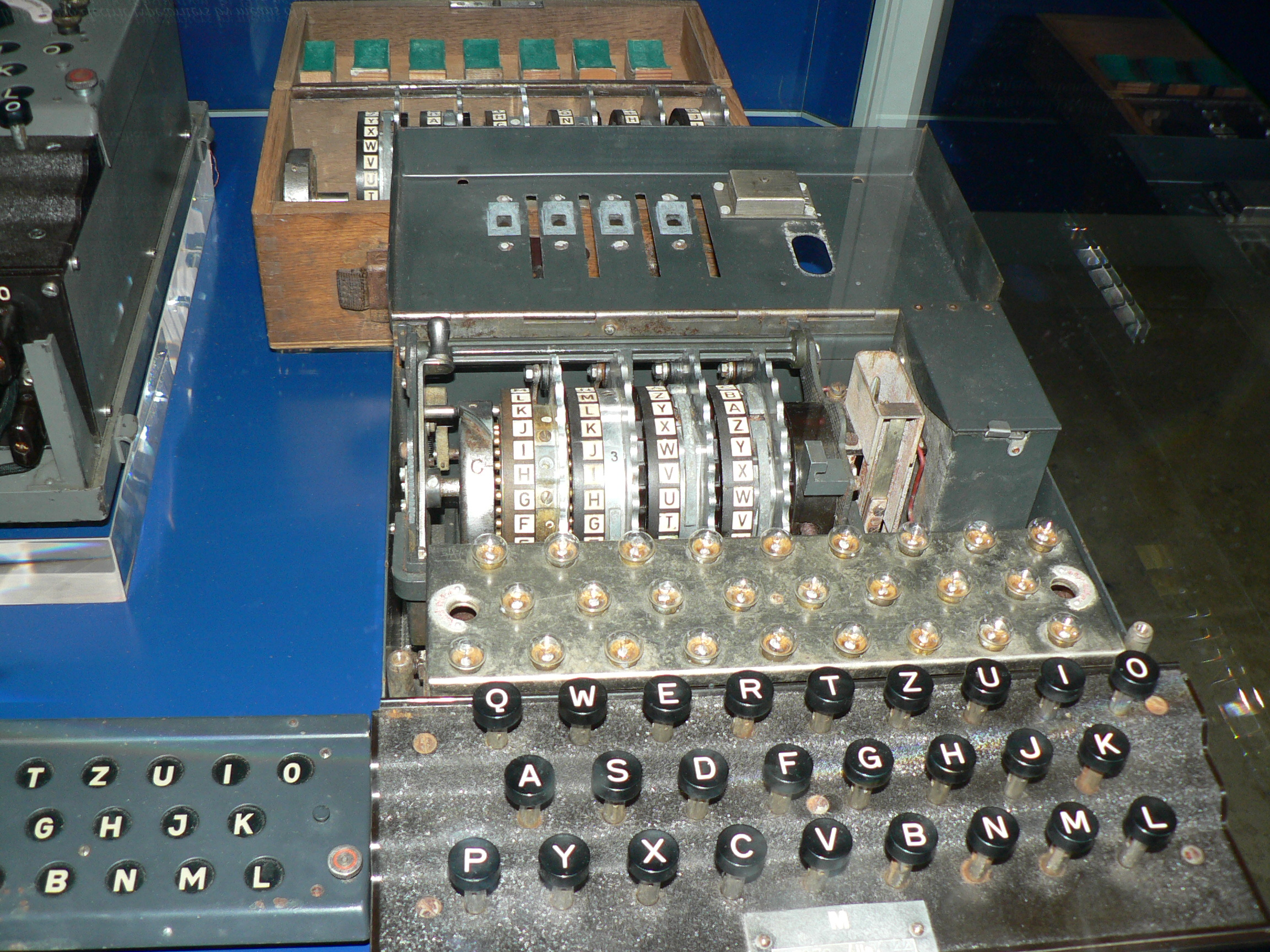 Munich, Germany